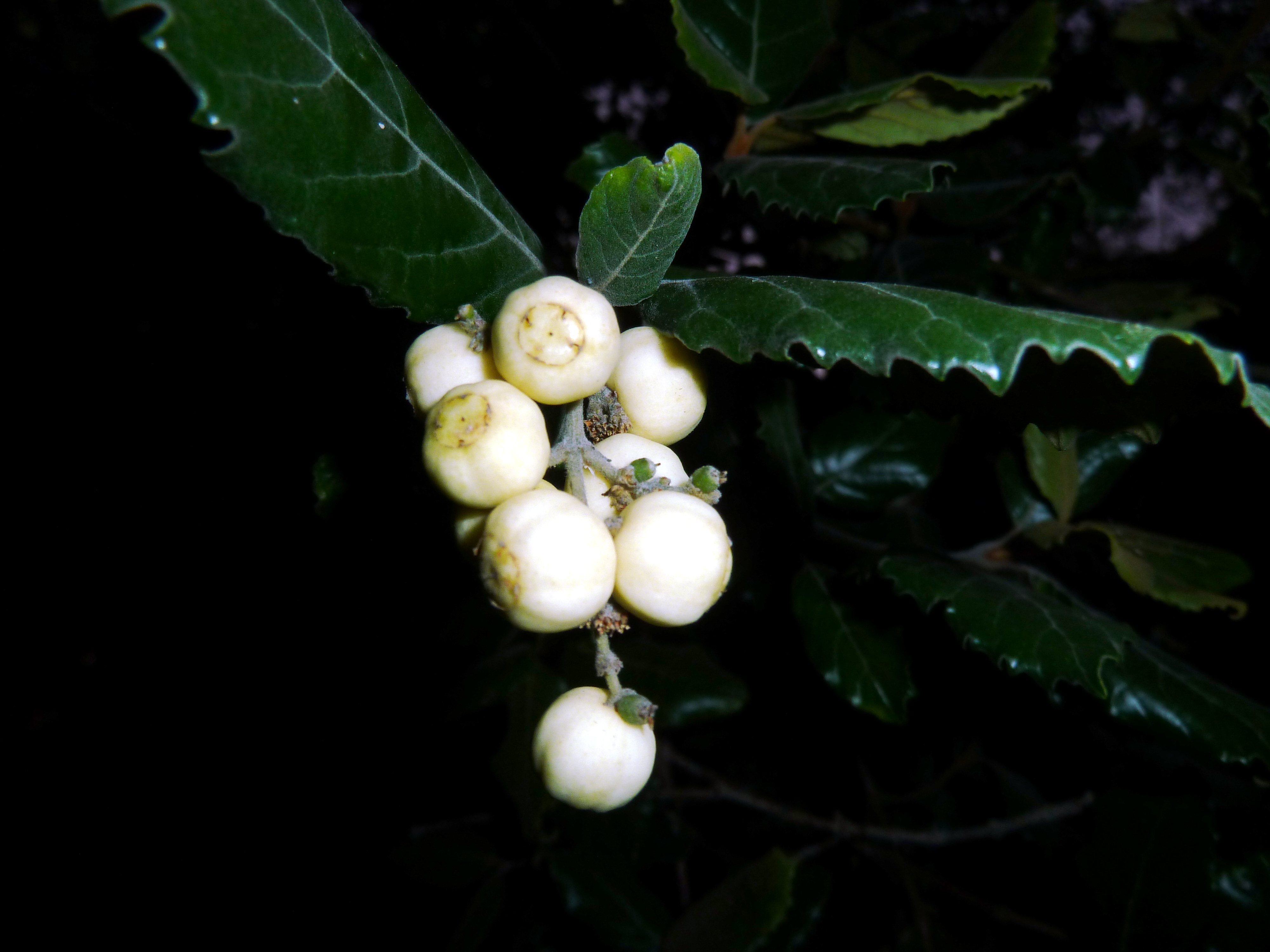 Fruit of the Assegai at the TUT campus, Pretoria